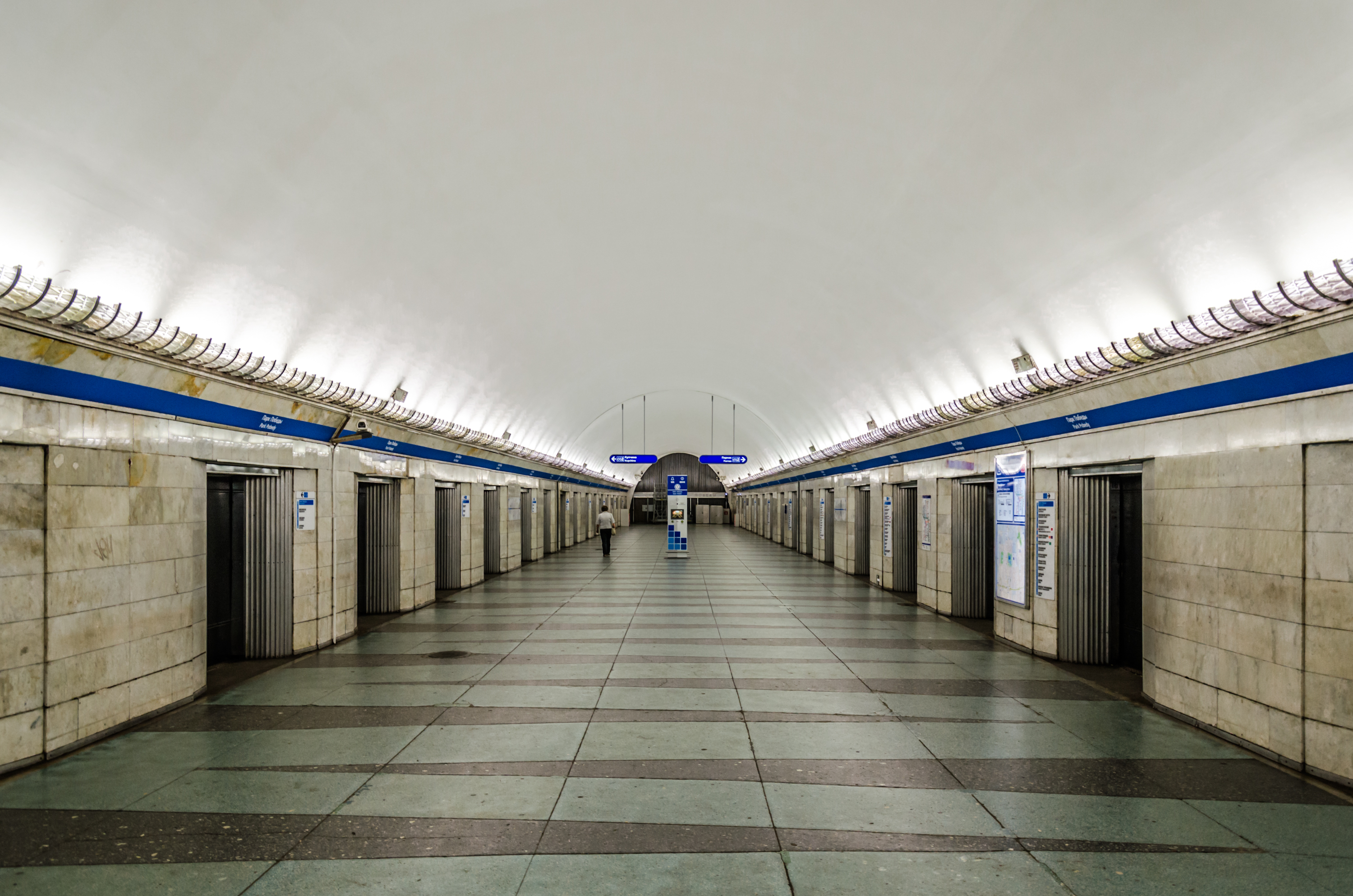 Park Pobedy station of Saint Petersburg Subway